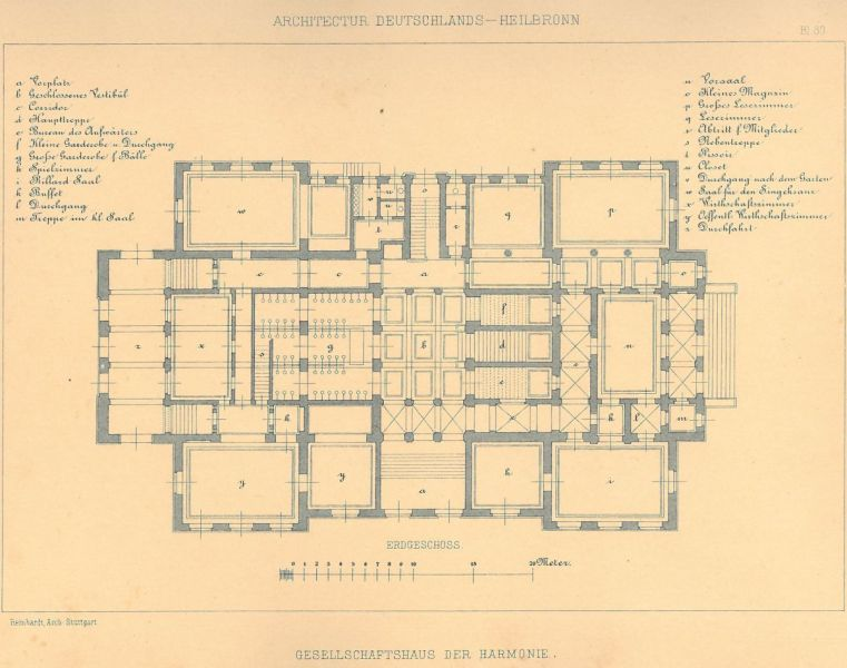 Alte Harmonie in Heilbronn, Entwurf von Robert von Reinhardt (* 11. Januar 1843 in Neuffen; † 5. Mai 1914 in Stuttgart) , Erdgeschoss